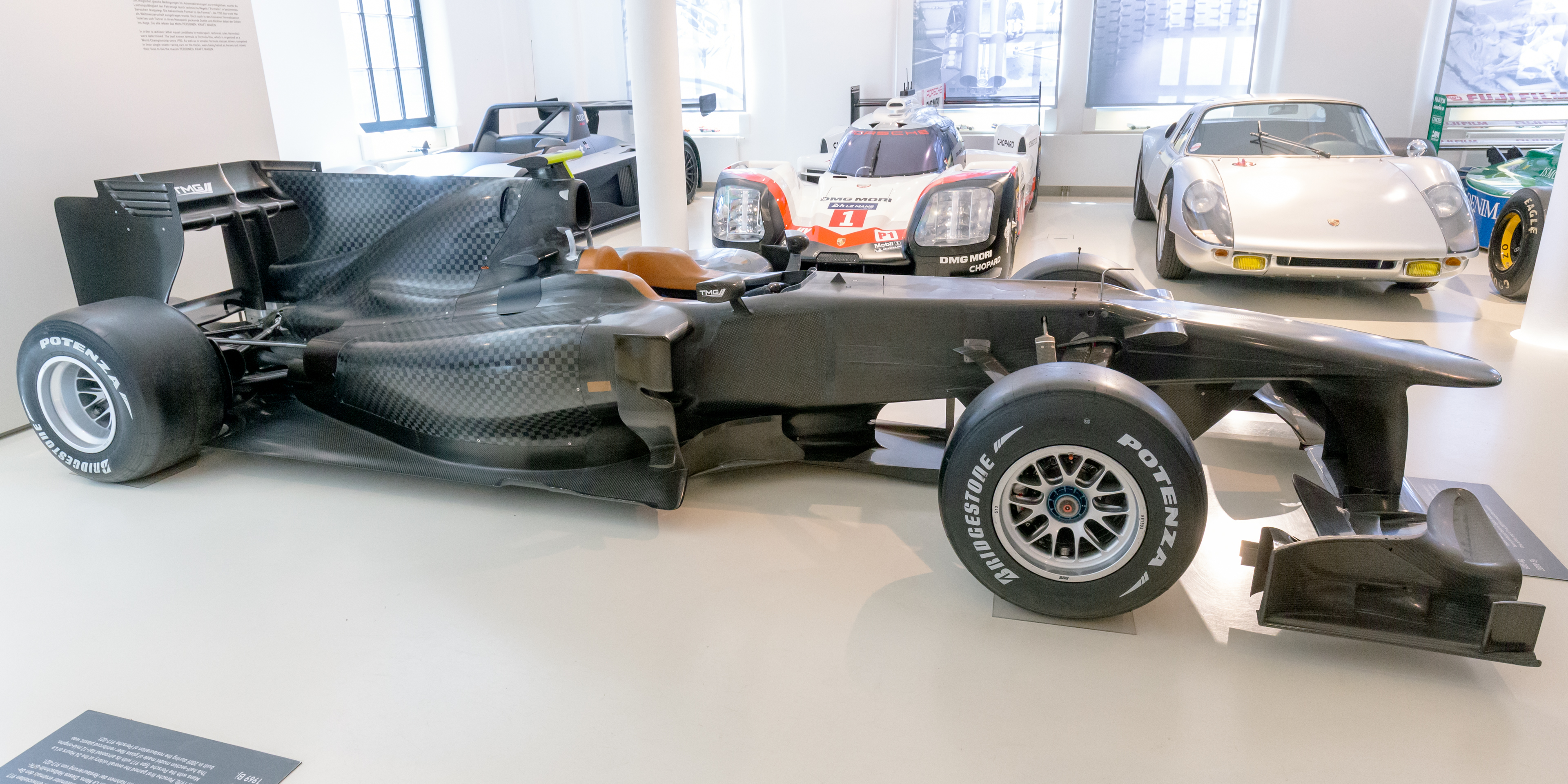 Prototyp Museum: 2010 Toyota TF110